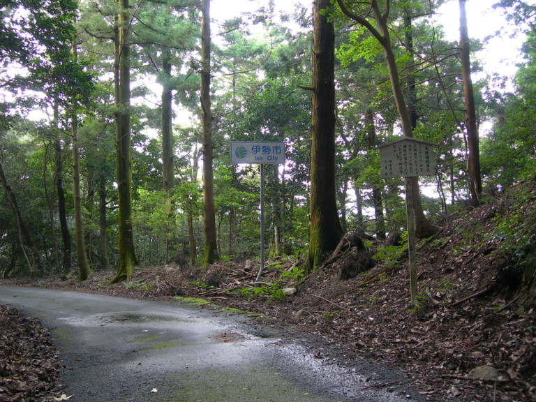 Tsurugi pass at Mie prefectural roads No.12, between Ise and Minami-ise in Japan.